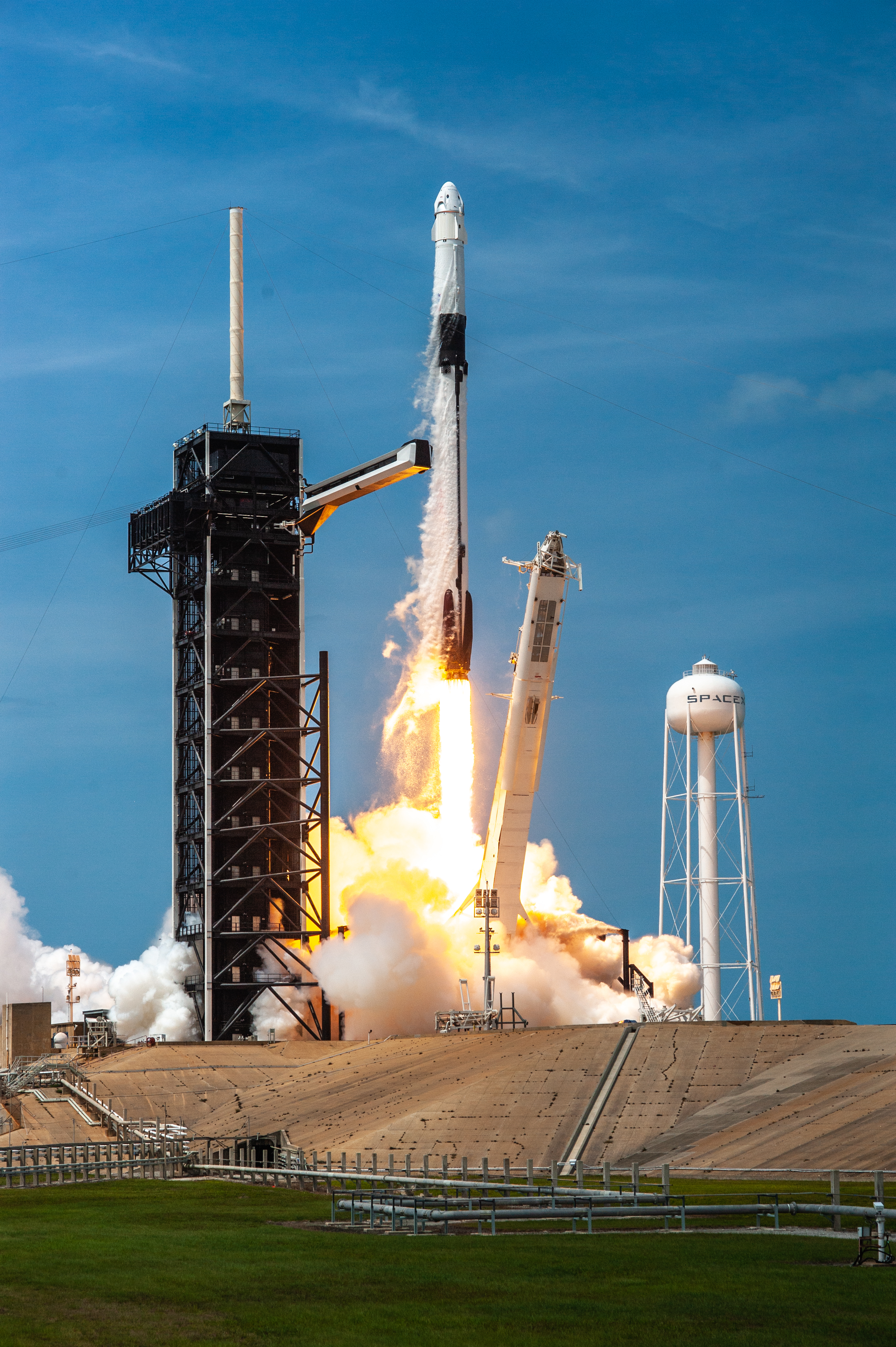 A SpaceX Falcon 9 rocket and Crew Dragon spacecraft lifts off from Launch Complex 39A at NASA’s Kennedy Space Center in Florida on May 30, 2020, carrying NASA astronauts Robert Behnken and Douglas Hurley to the International Space Station for the agency’s SpaceX Demo-2 mission. Liftoff occurred at 3:22 p.m. EDT. Behnken and Hurley are the first astronauts to launch from U.S. soil to thespace station since the end of the Space Shuttle Program in 2011. Part of NASA’s Commercial Crew Program, this will be SpaceX’s final flight test, paving the way for the agency to certify the crew transportation system for regular, crewed flights to the orbiting laboratory.